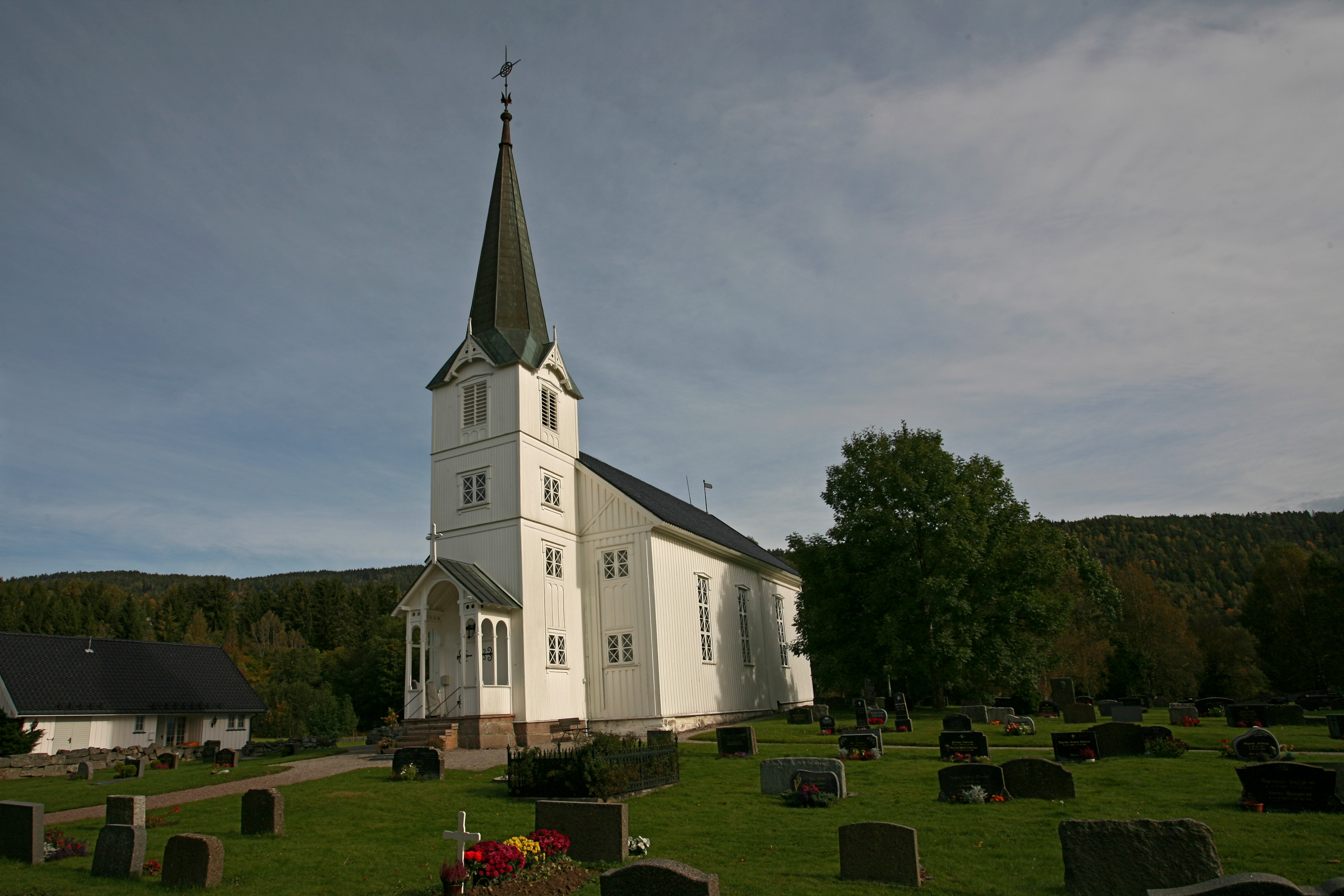 Picture of Siljan kirke (Telemark - Norway)